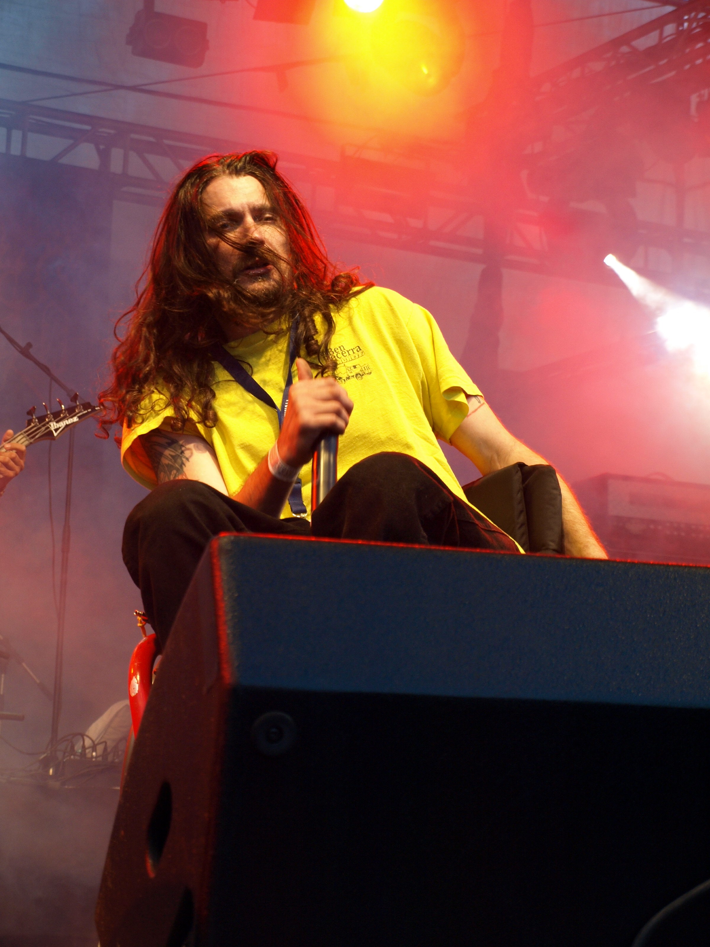 American death metal band Possessed live at Jalometalli 2008 in Oulu.